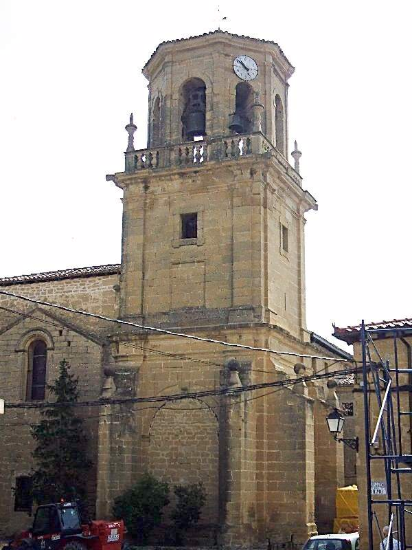 Iglesia de la Ascensión, en Sajazarra (La Rioja, España)